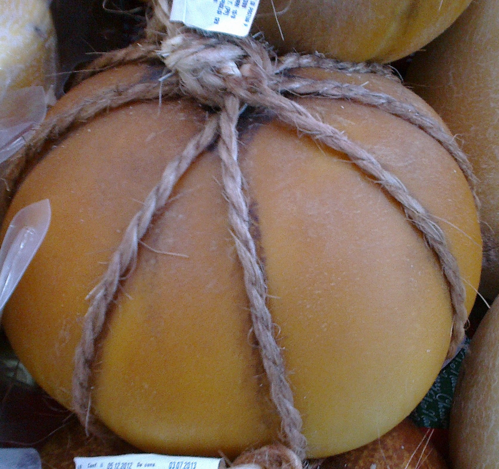 A smoked Provola delle Madonie, a typical sicilian cheese